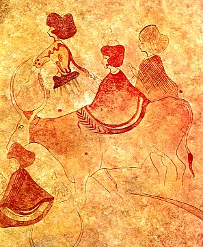 Tassili ladies. Parietal painting, discoverd by archelogic's team of Henri Lhote, Bovidian period. Ouan-Derbaouen